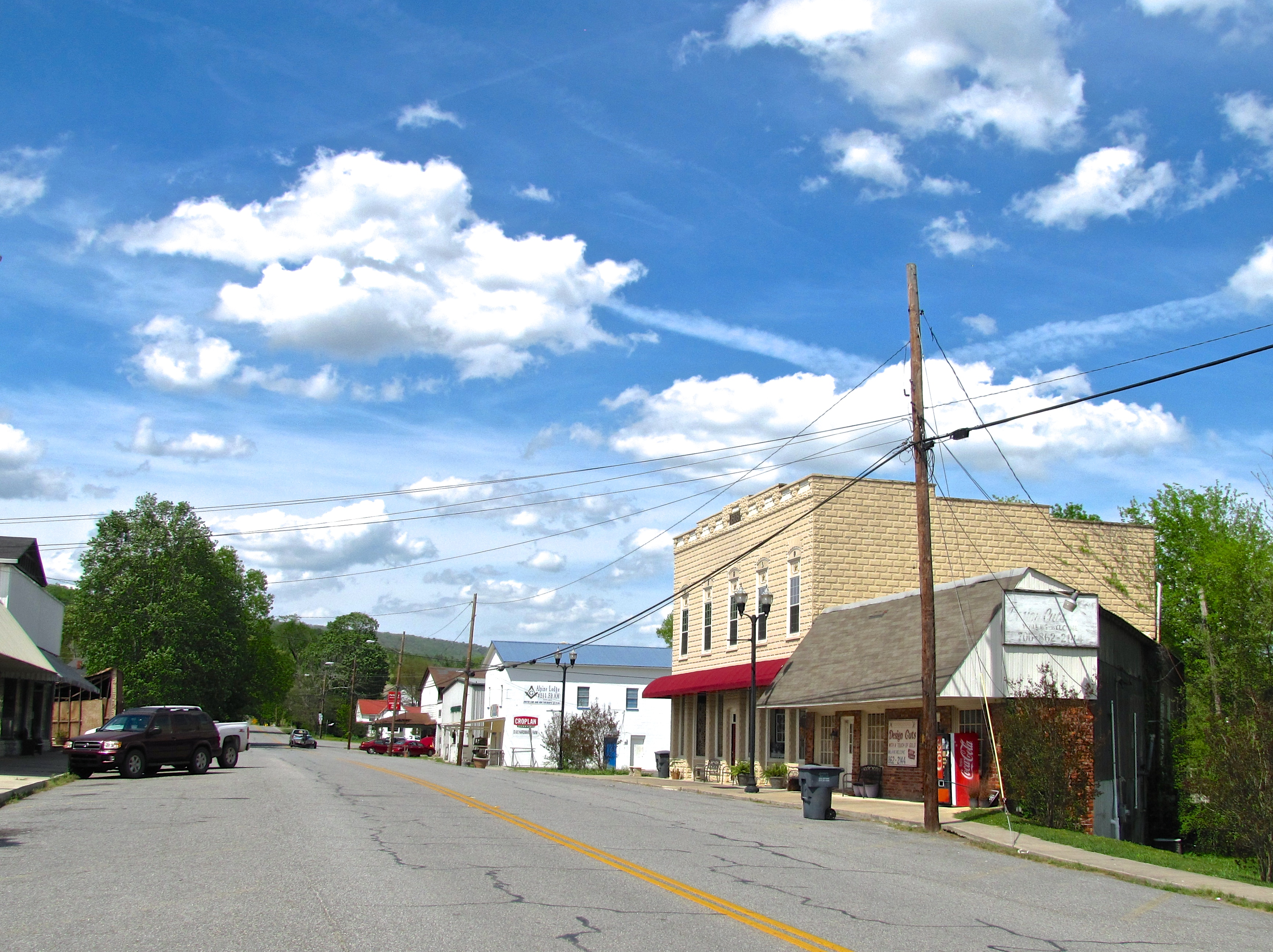 Buildings along 7th Avenue (Georgia State Route 337) in Menlo, Georgia, United States.